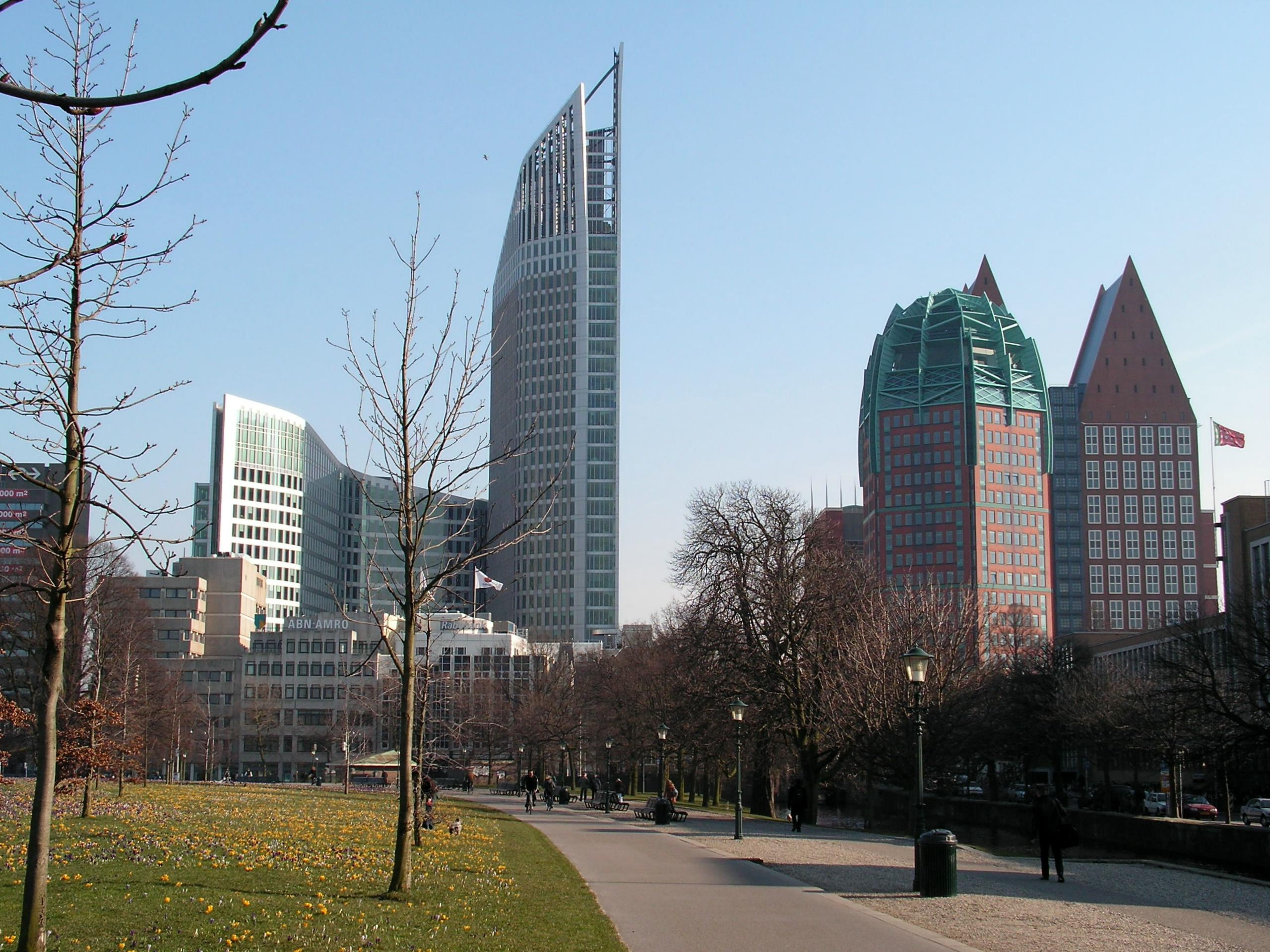 The 'sharp' building to the left is the 142m tall Hoftoren, the highest building in The Hague. It houses The Dutch Ministry of Education, Culture, and Science. The building to the right is the Netherlands Ministry of Health, Welfare and Sport. Taken by me, March 15, 2006